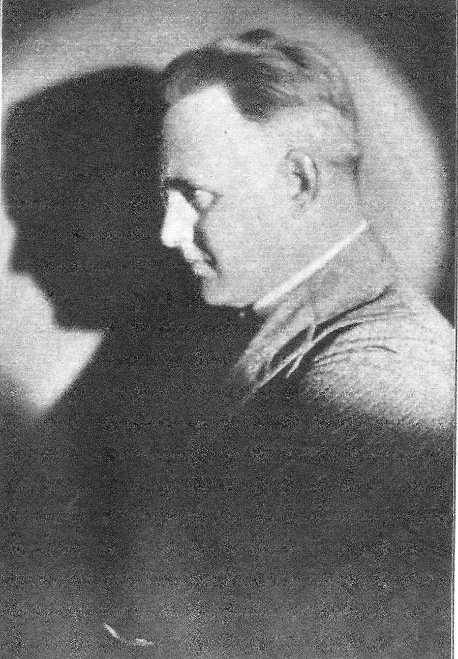 Photograph of American film Clarence Badger.